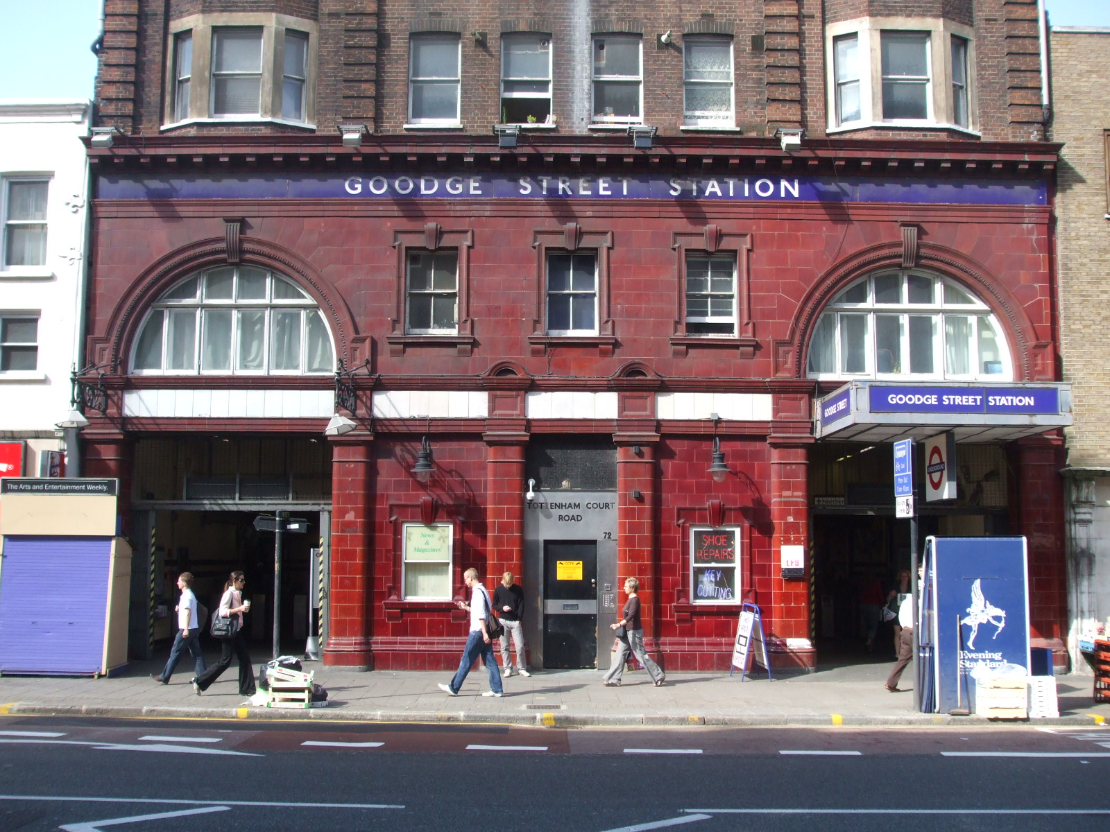 Goodge Street tube station